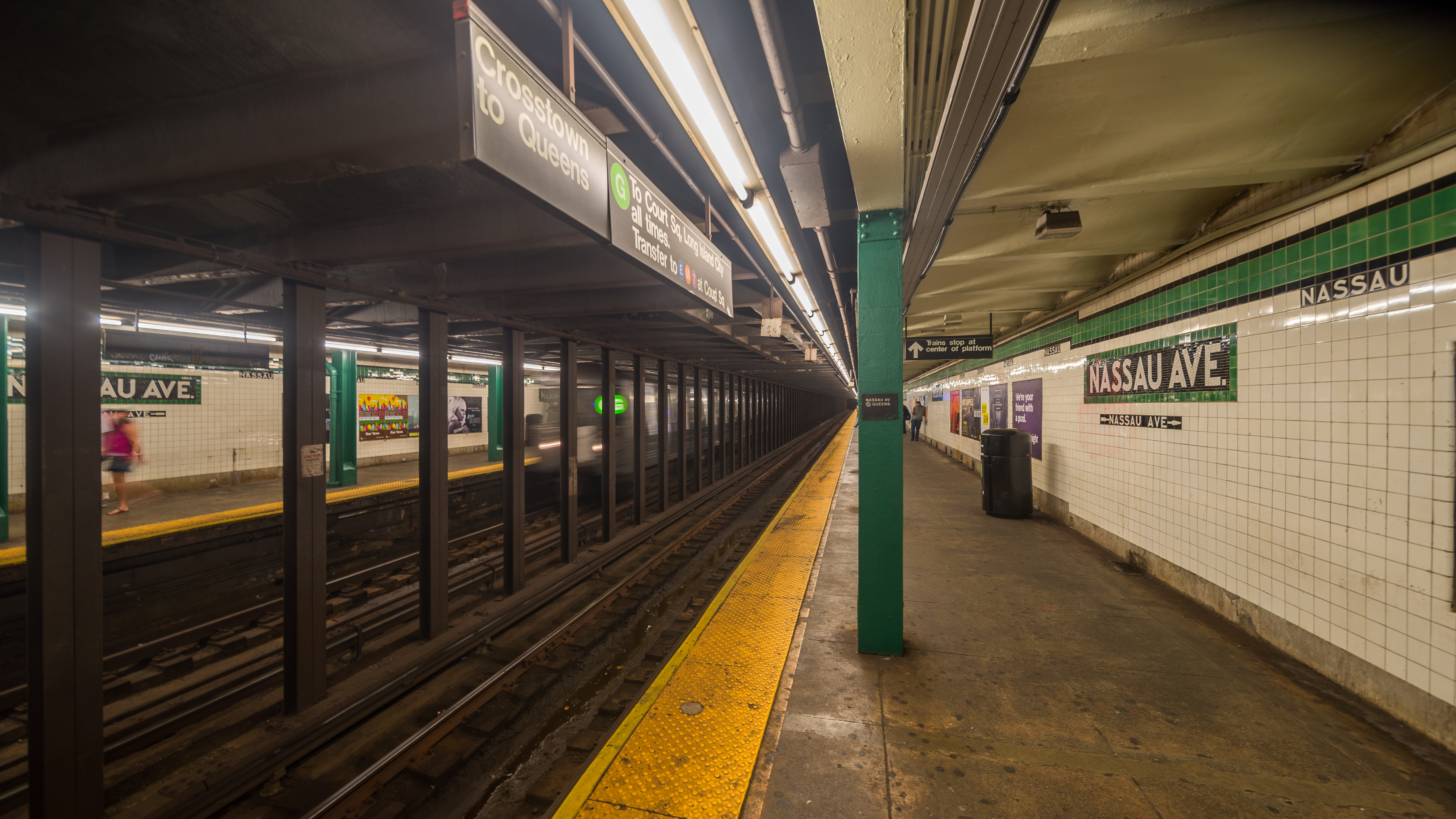 Nassau Aveny station, New York.